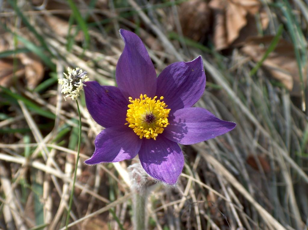 Pulsatilla slavica Flower